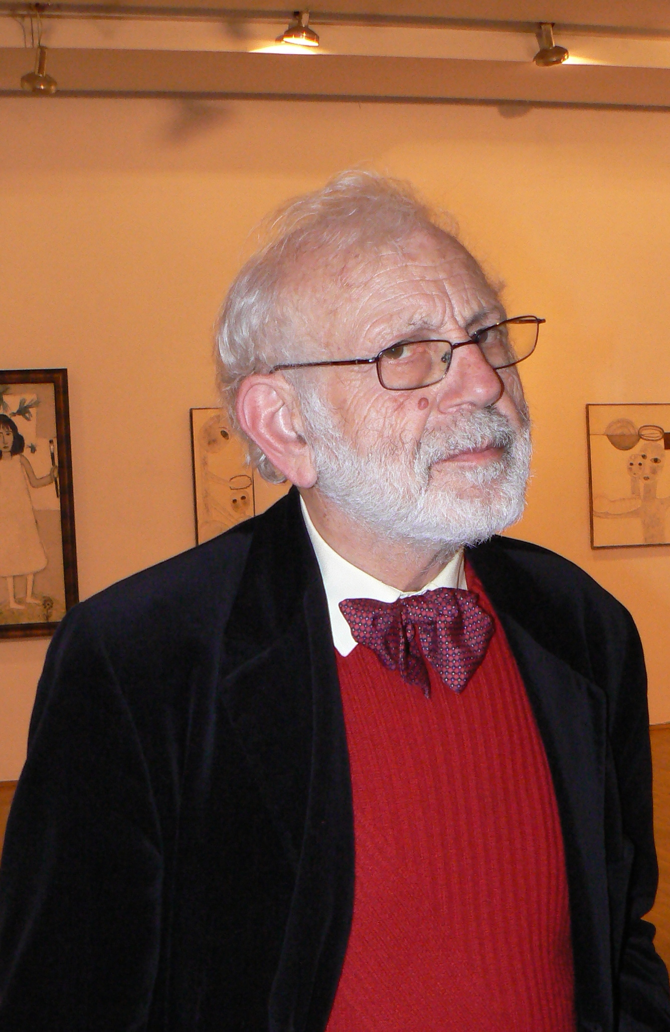 Bulgarian actor Itzhak Fintzi, on the literary reading of Petko Bocharov's book "Faces and fates from three Bulgarias" in the Sofia Town Gallery on November 4, 2010.